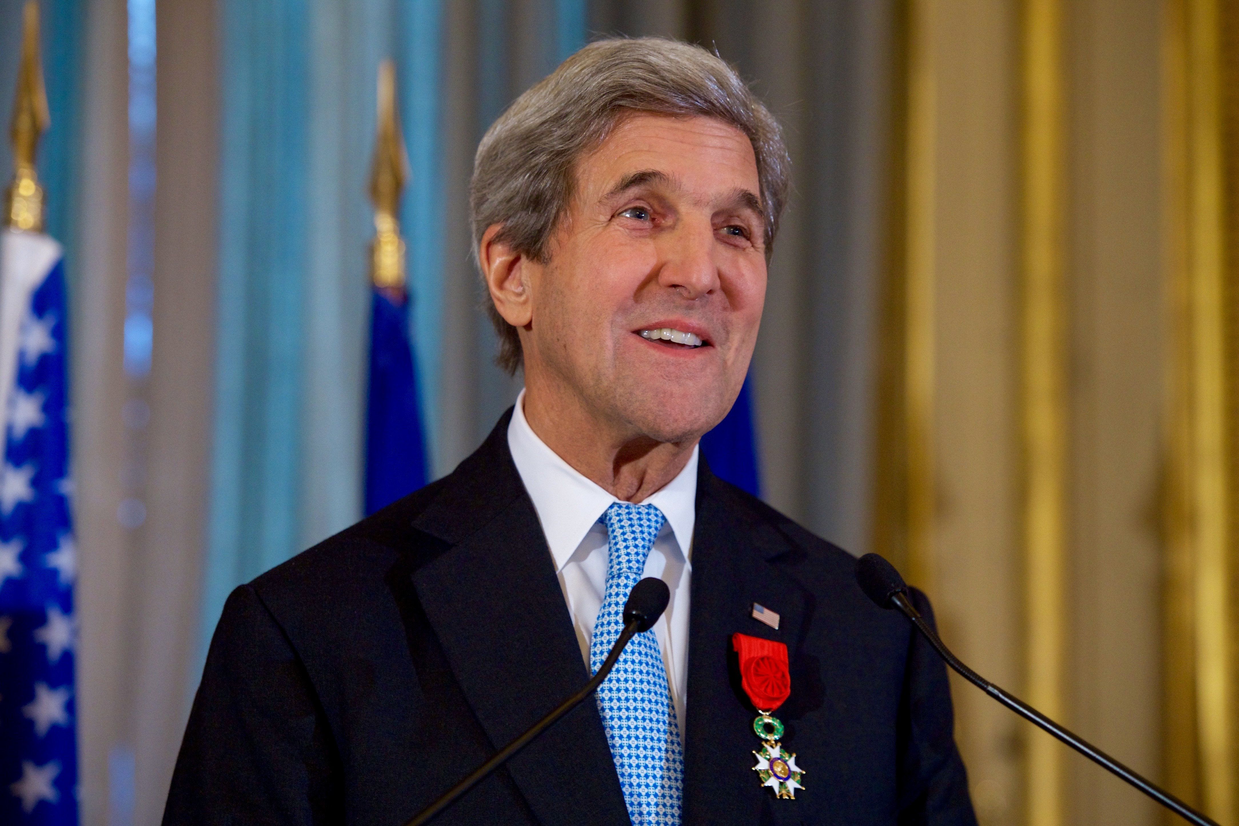 U.S. Secretary of State John Kerry delivers his thanks after French Foreign Minister Jean-Marc Ayrault awarded him the Grand Officer of the Légion d'honneur, the second-highest level of the French award, during a ceremony on December 10, 2016, at the Quai d'Orsay - the French Foreign Ministry - in Paris, France. [State Department Photo/ Public Domain]